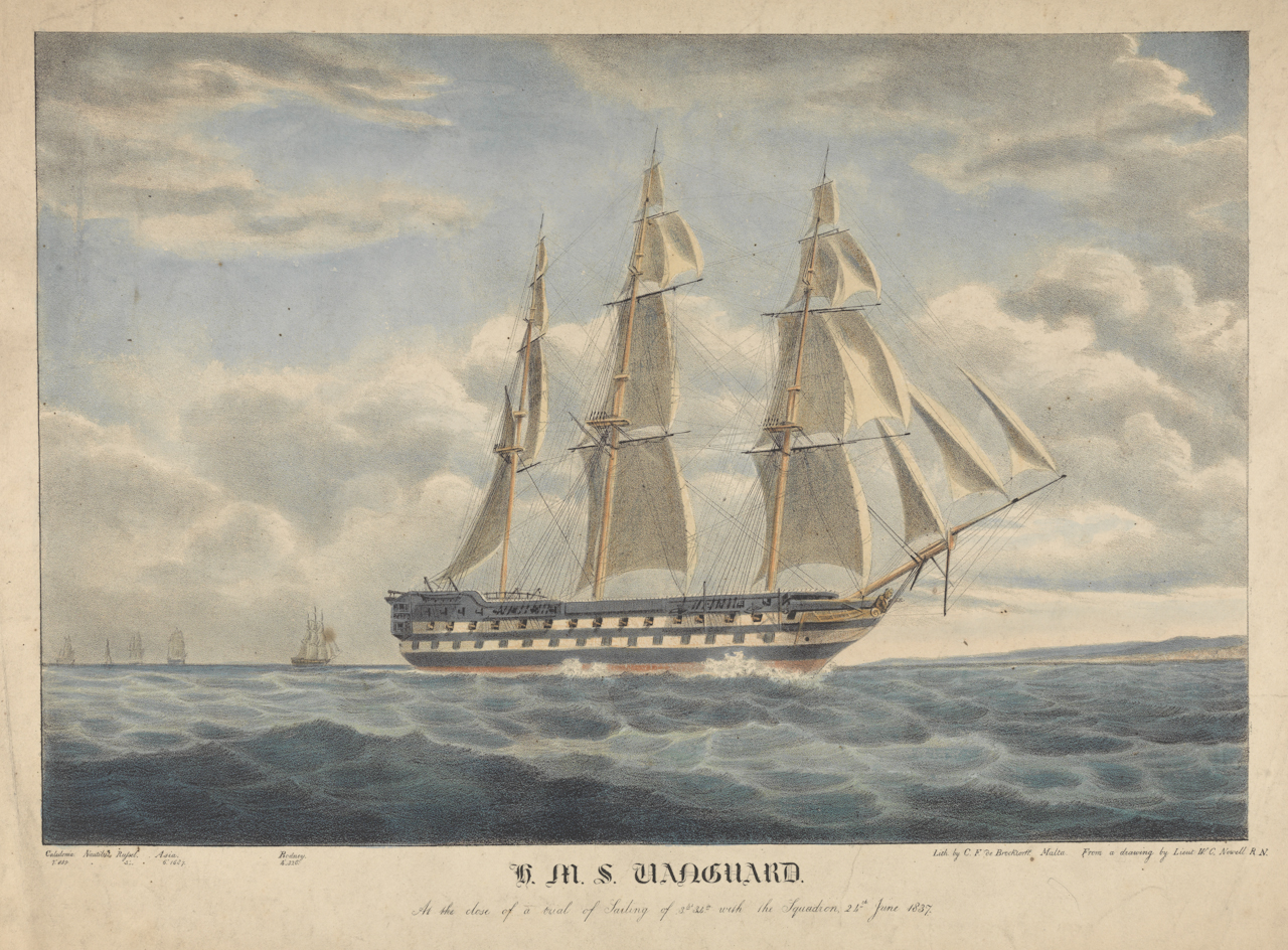 H.M.S. Vanguard. At the close of a trial of Sailing of 3hs 34m with the Squadron 24th June 1837 Hand-coloured.